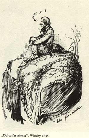 Scan of Cyprian Kamil Norwid self-portrait from book. Norwid is the author of the portrait and the laws has expired.